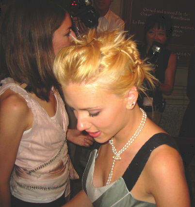 Scarlett Johansson at the premiere of Lost in Translation, 2003 Toronto Film Festival. Unfortunately, she never quite looked up. Sofia Coppola in the pink to the left